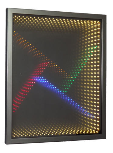 An infinity mirror that uses LED lights, intended for interior decoration.